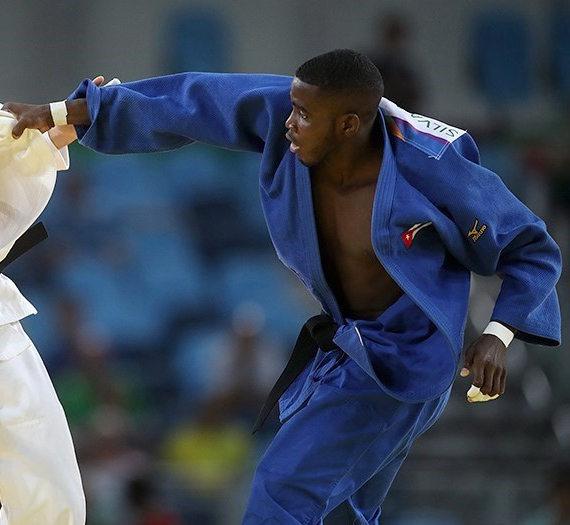 2016 Summer Olympics Judo, August 9